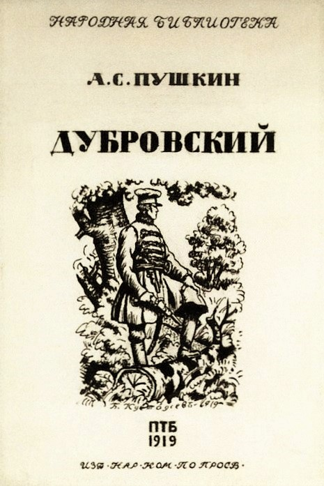 Title page, 1919 edition of Pushkin's Dubrovsky